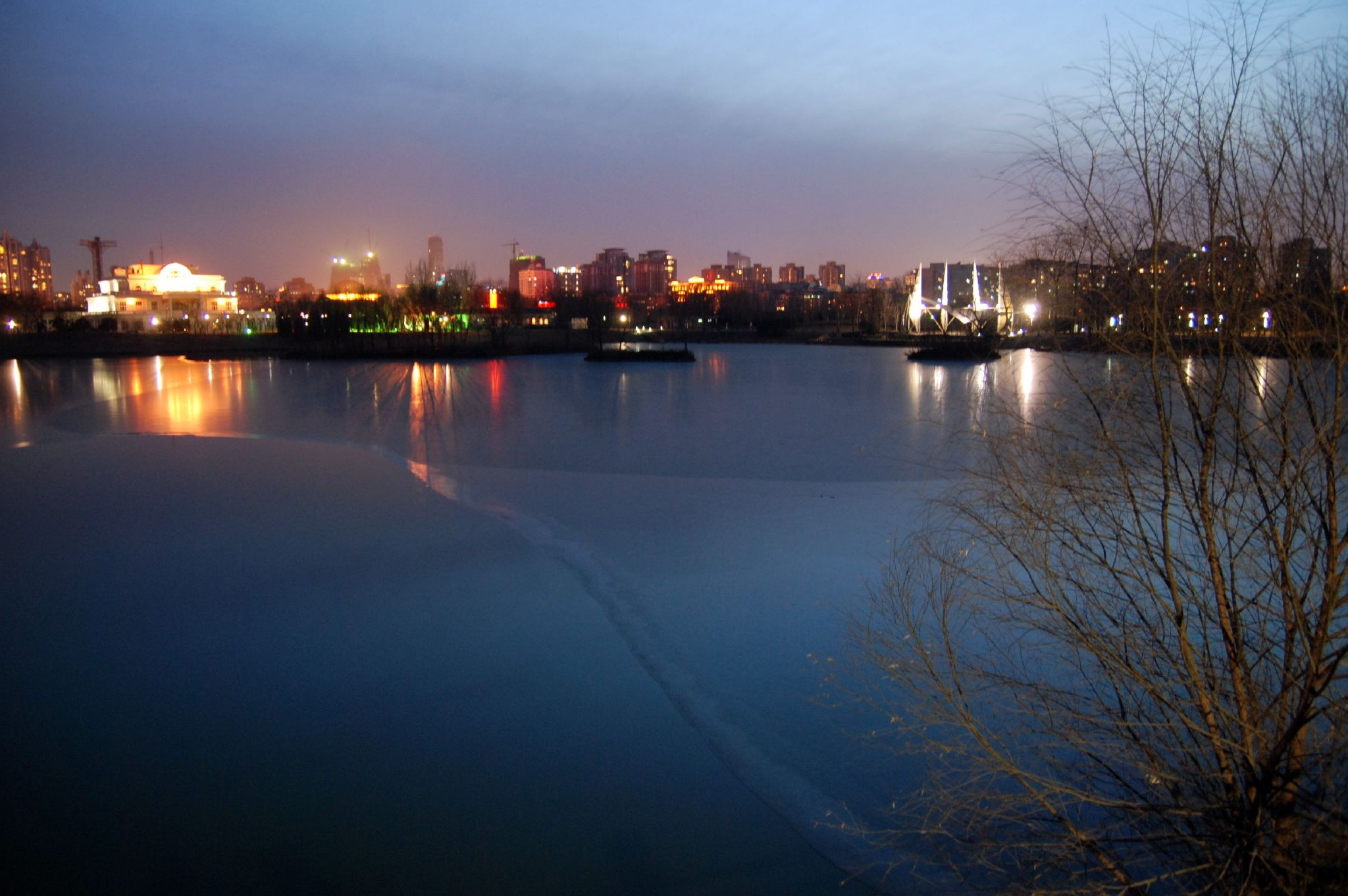 The lake in the Chaoyang Park in Beijing